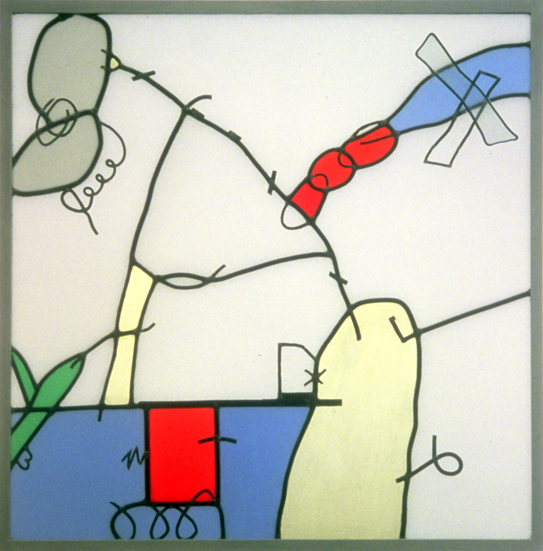 "Composition XXXI" — by Robert Kehlmann (1976). Opaque leaded glass panel with glass overlay. Corning Museum of Glass collection.